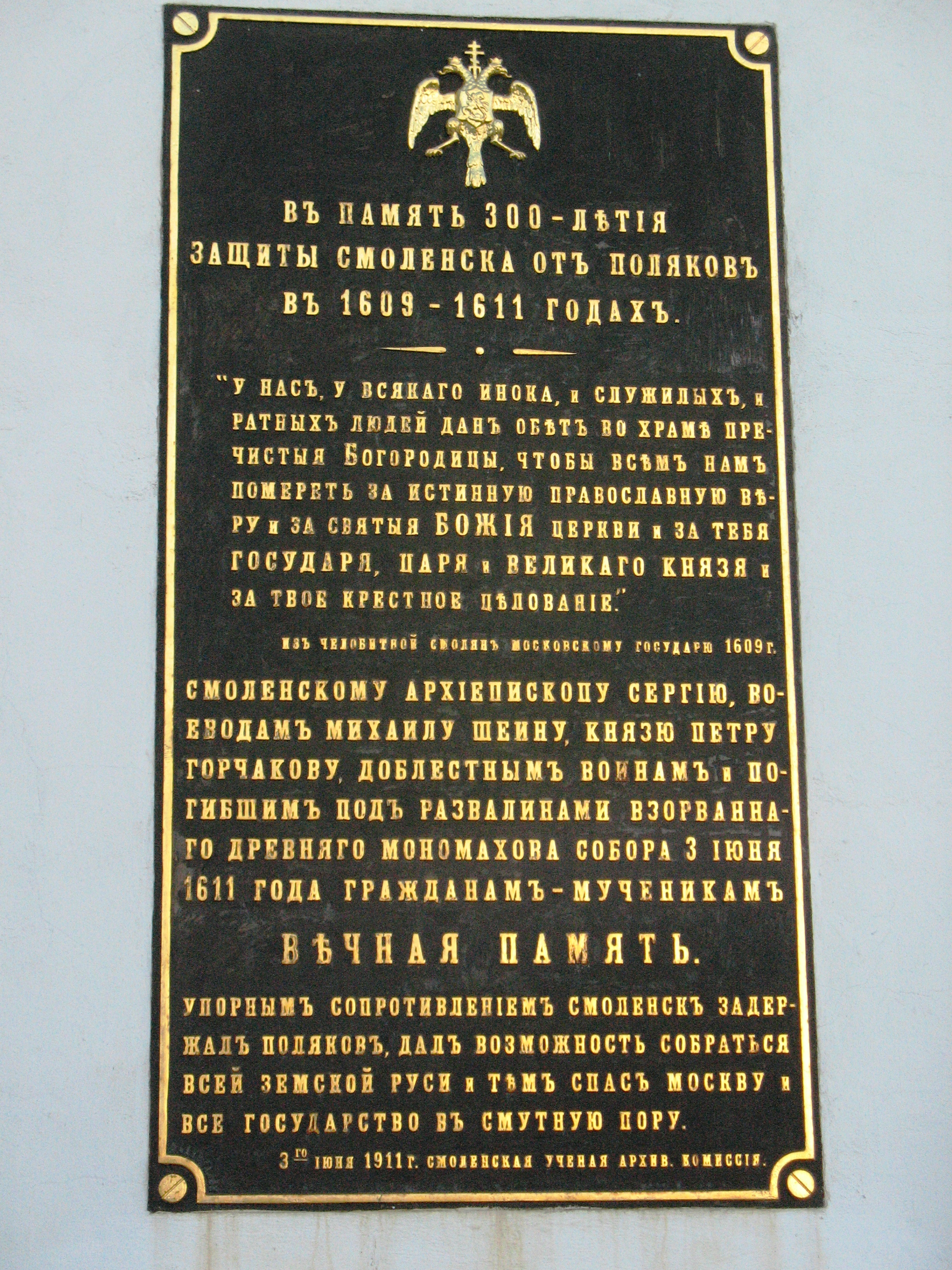 Memorial table 300-years old of Siege_of_Smolensk_(1609–11), 1911